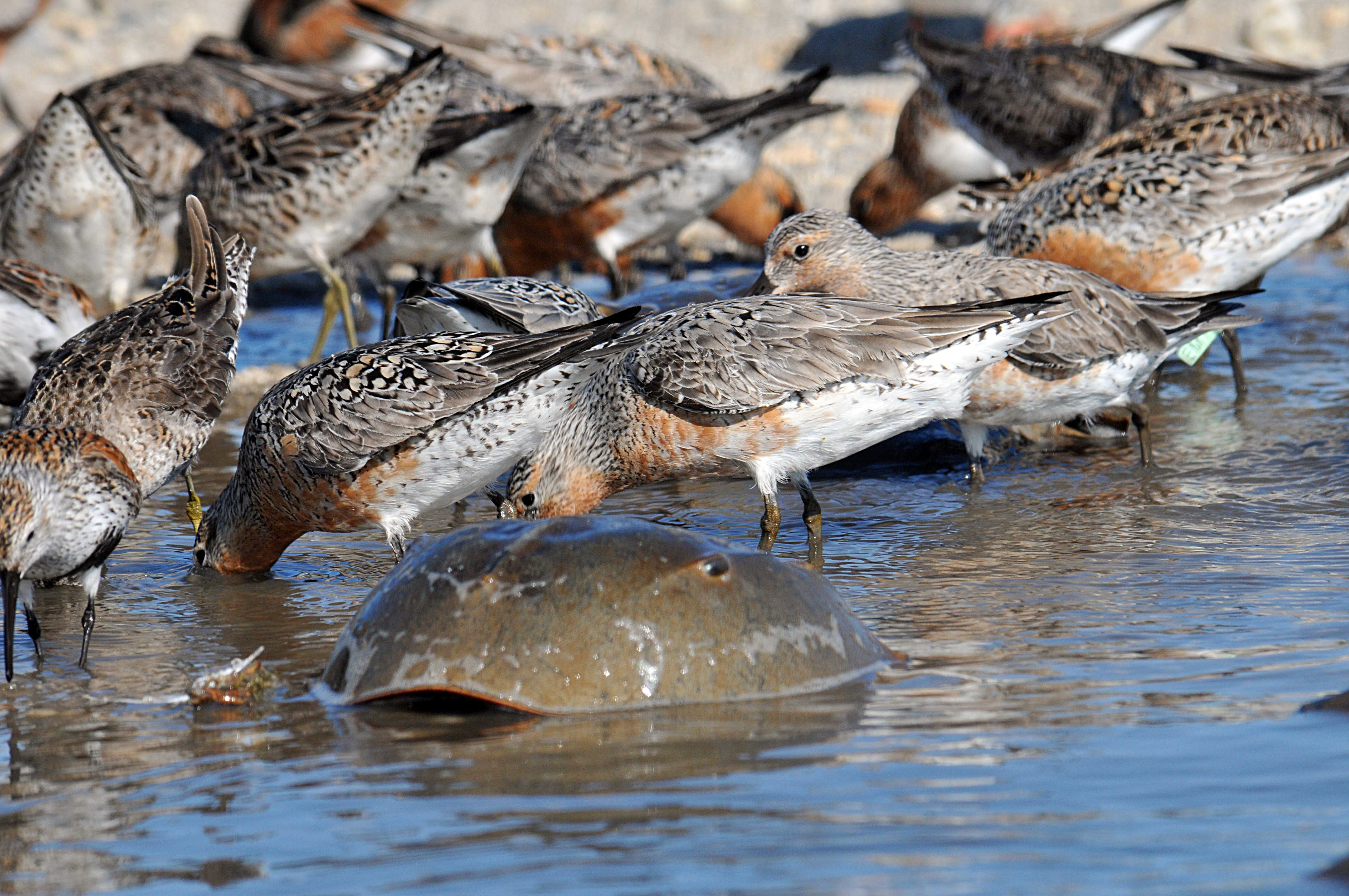 Red Knot feeding on eggs of Horseshoe crabs. Mispillion Harbor, Delaware